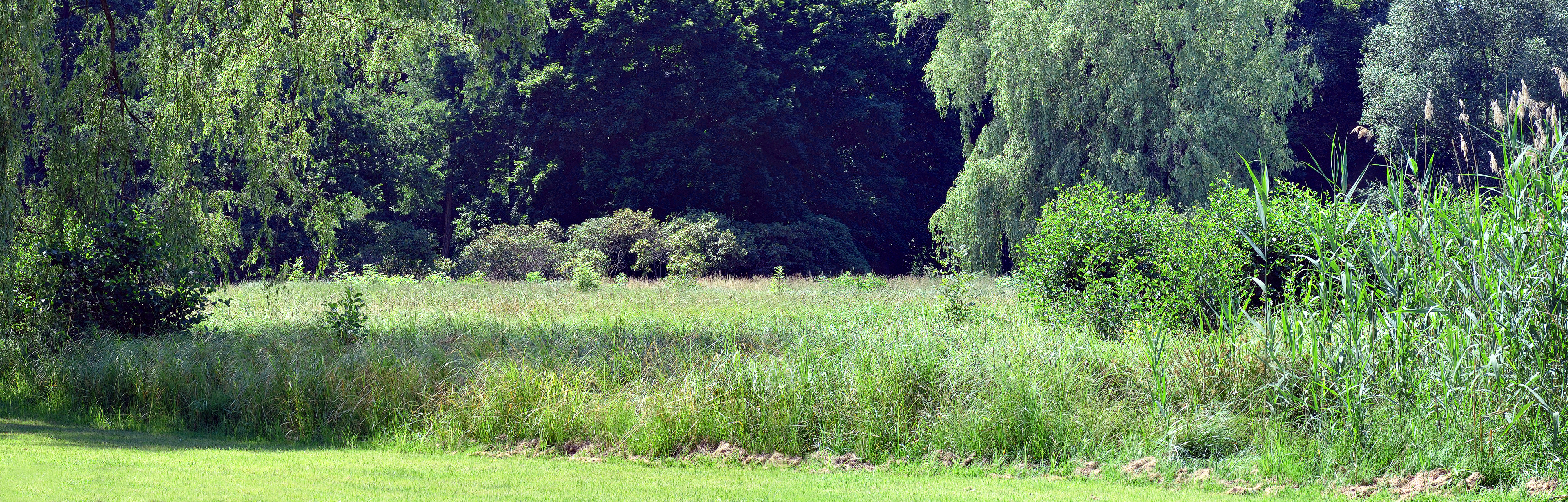 This image shows a the natural meadows near the Schwanenteich in the city centre of Zwickau (Saxony, Germany).